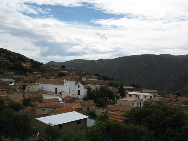 View of the town of Otuyo